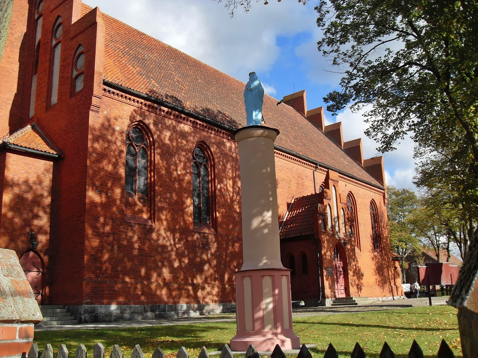 Courtyard of the Church of Long Street